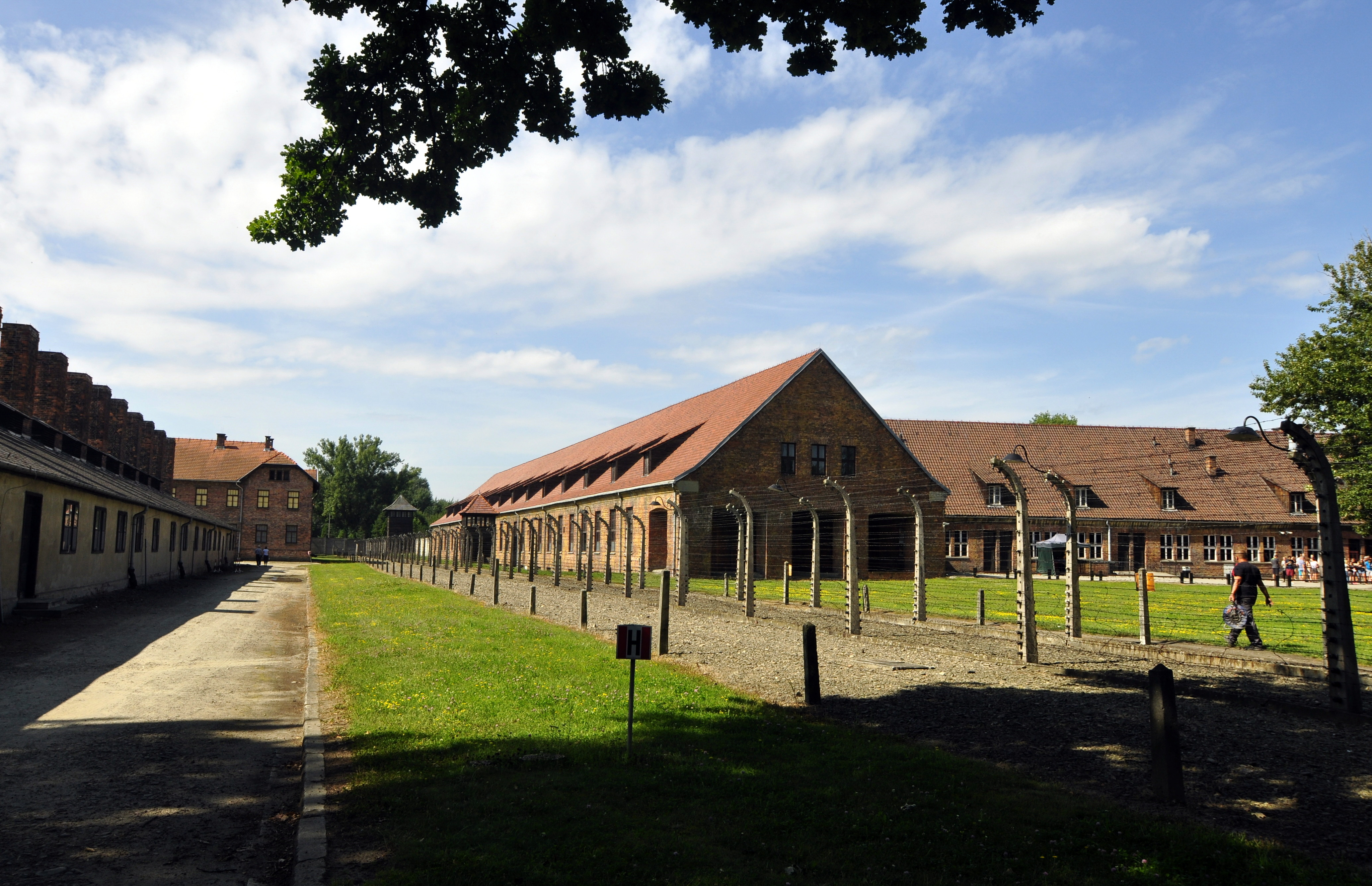 The visitor reception centre of the Auschwitz-Birkenau Memorial and Museum and the former prisoner reception centre of Auschwitz I, the German concentration camp in occupied Poland